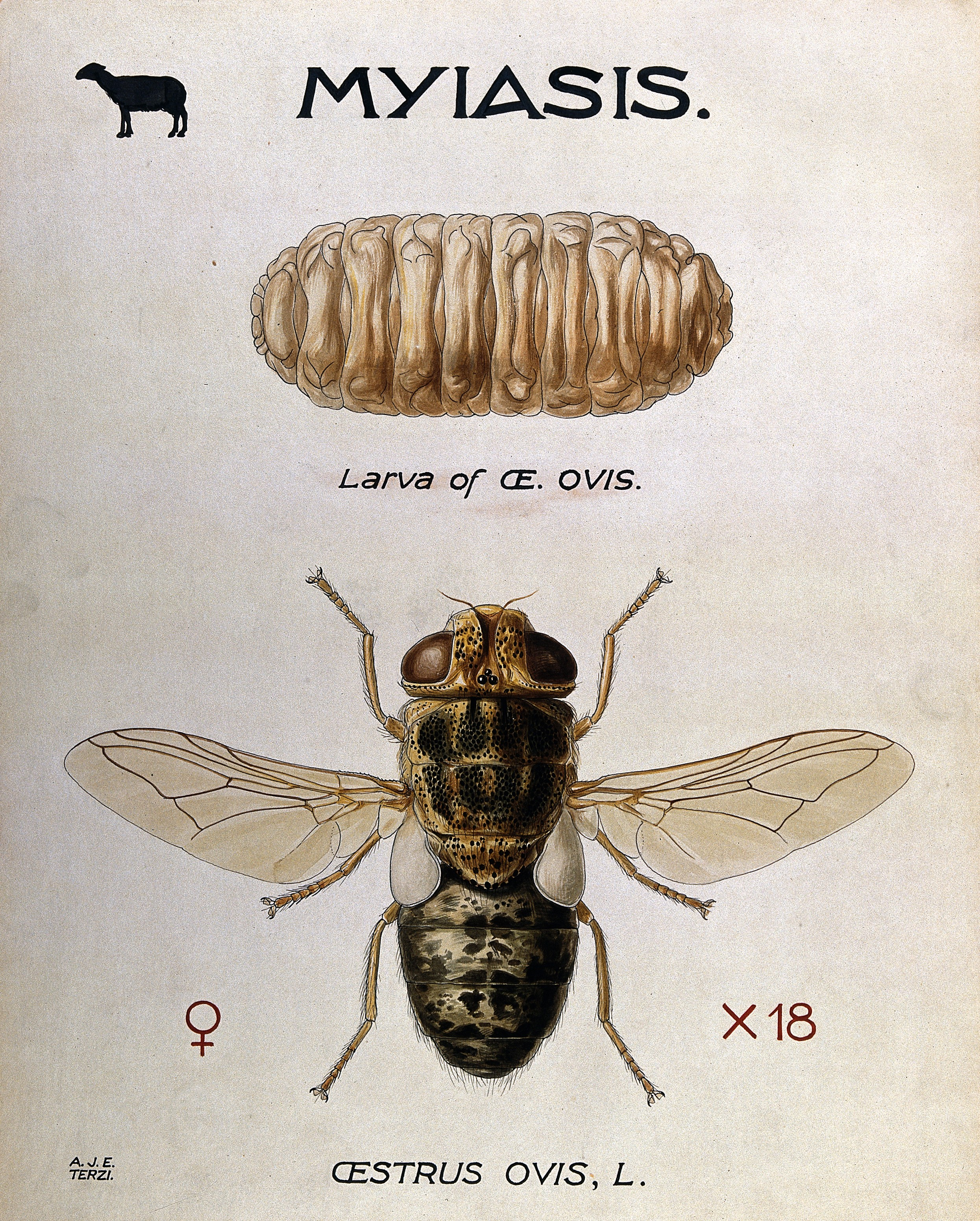 The larva and fly of the sheep-nostril-fly (Oestrus ovis). Coloured drawing by A.J.E. Terzi. Iconographic Collections Keywords: Amedeo John Engel Terzi